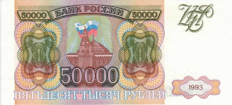 Russian banknote. 50000 rubles. Version of 1993 year. Front